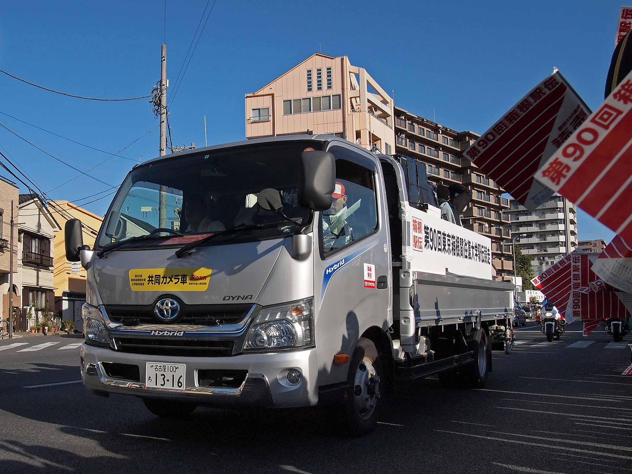 Toyota Dyna Hybrid (Wide body), operated as camera car for 2014 Tokyo-Hakone collegiate ekiden. License plate: ACN100 CHI1316 Place: Tsurumi-Chuo, Tsurumi Ward, Yokohama, Kanagawa Japan